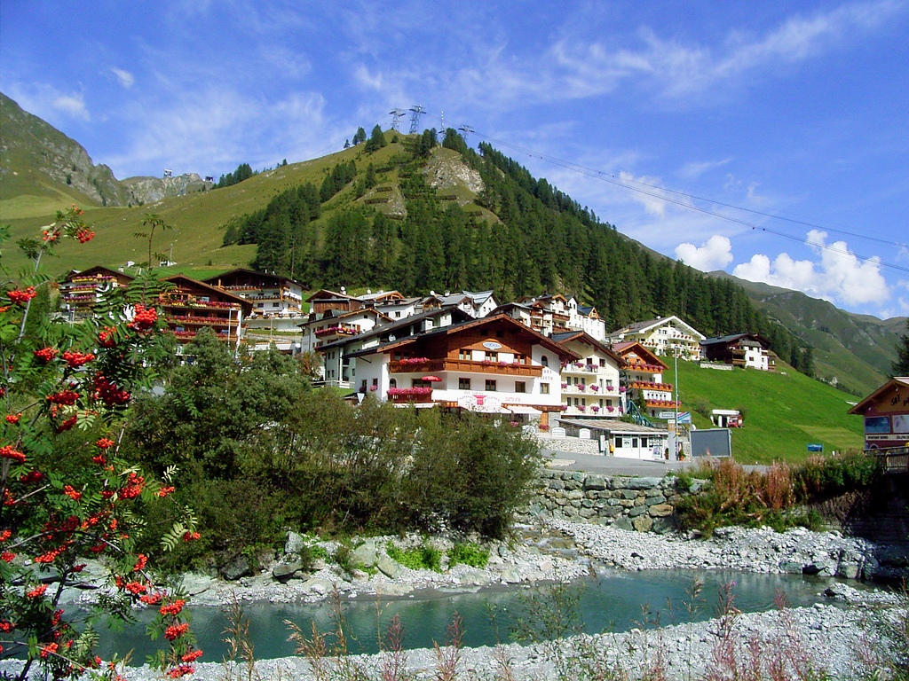 Samnaun-Ravaisch mit Schergenbach, Switzerland